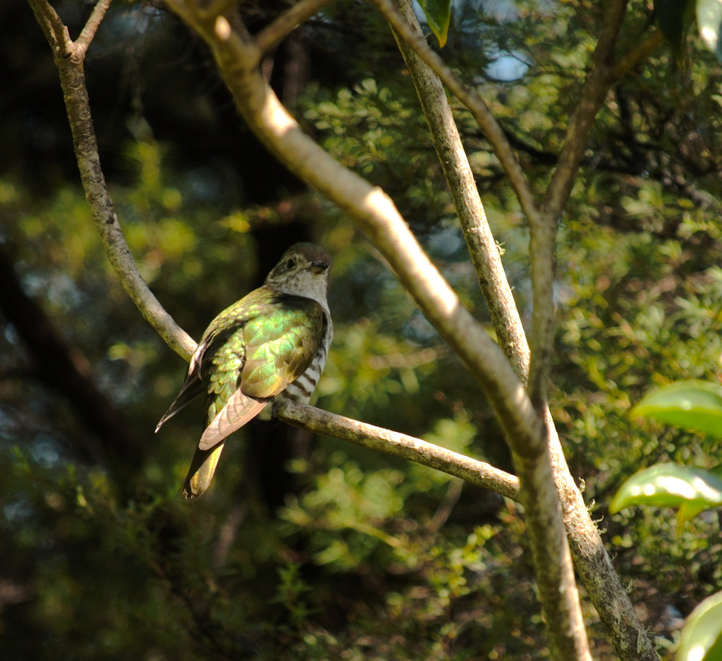 shining bronze cuckoo in New Zealand with the sun on its back